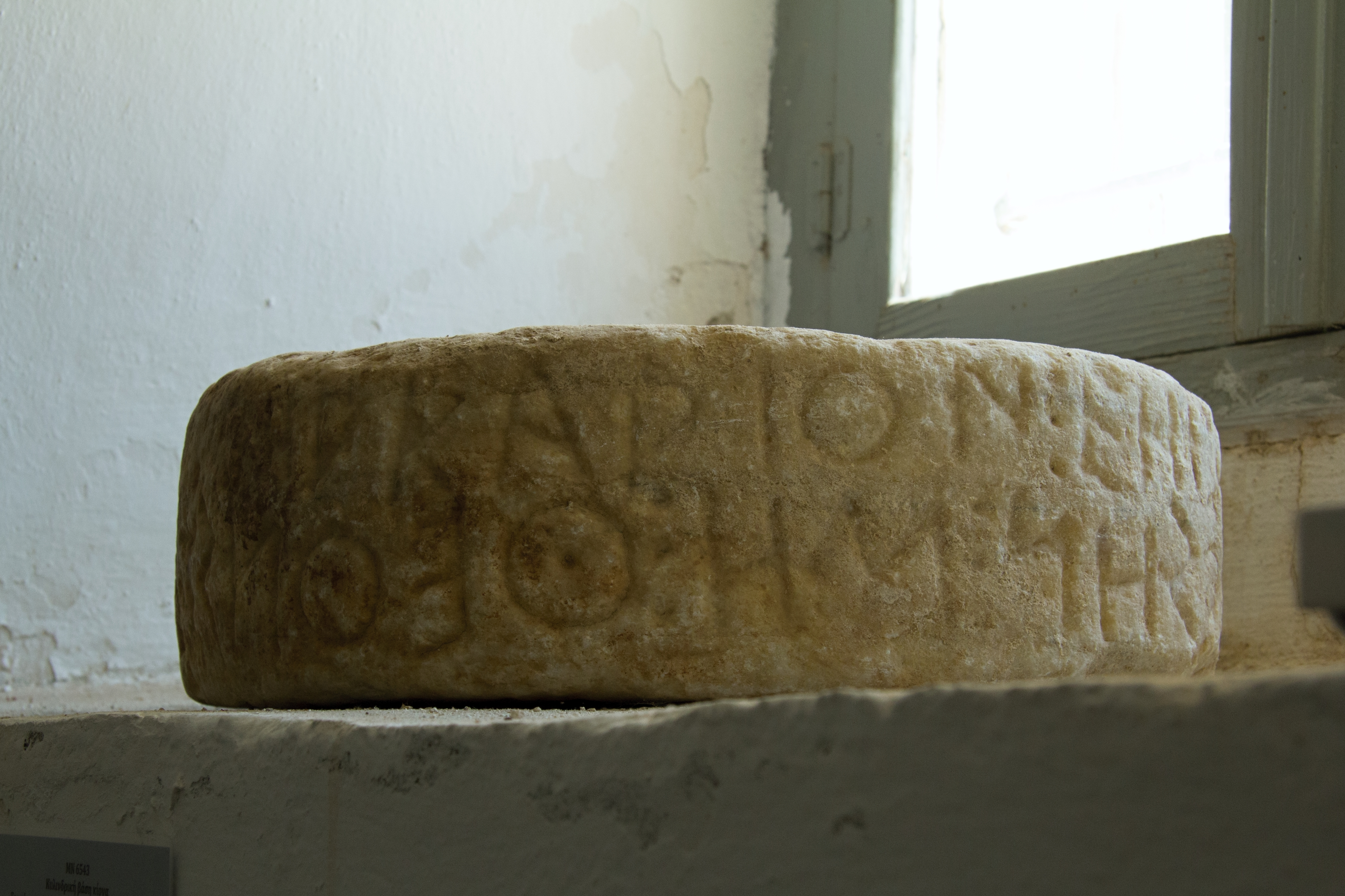 Base of column with an inscription in zig-zag direction (bústrofédon). Marble, 42 x 11.3 cm. Archaic period, late 6th century BC. Found in 1977 in the left apse of the Church of Christ at Sangri, ie 400 m east of the sanctuary of Demeter at Gyroulas near Sangri on Naxos. Archaeological Museum of Naxos, MN 6543. Inscriptionː"Leukarion created me as a memorial of Theoliston." - Ληυκαρίον ἐηποίεσήν μη Θεολίστεο μνῆ̣μα (with omikron instead of omega).